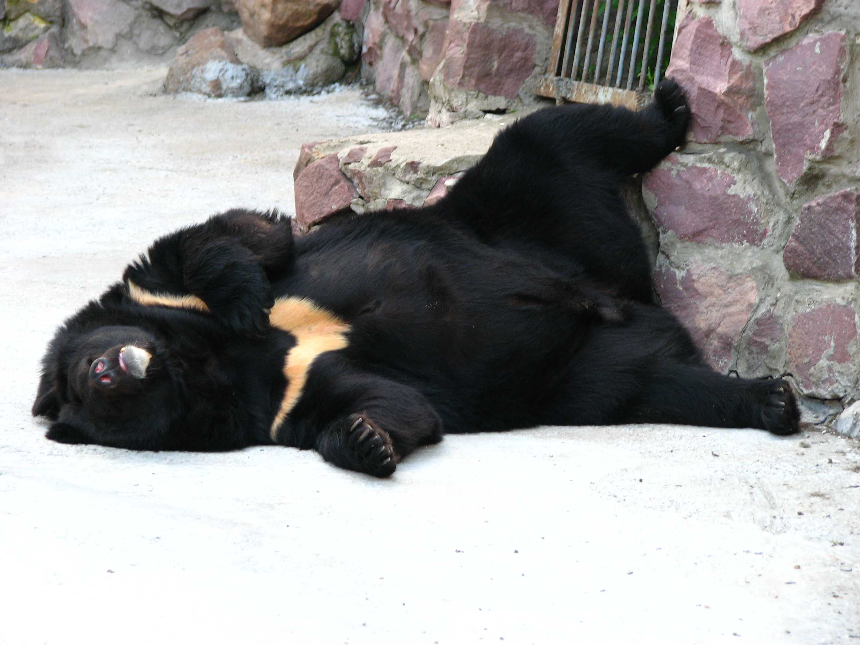 Moscow Zoo. Himalayan Black Bear (Ursus thibetanus)